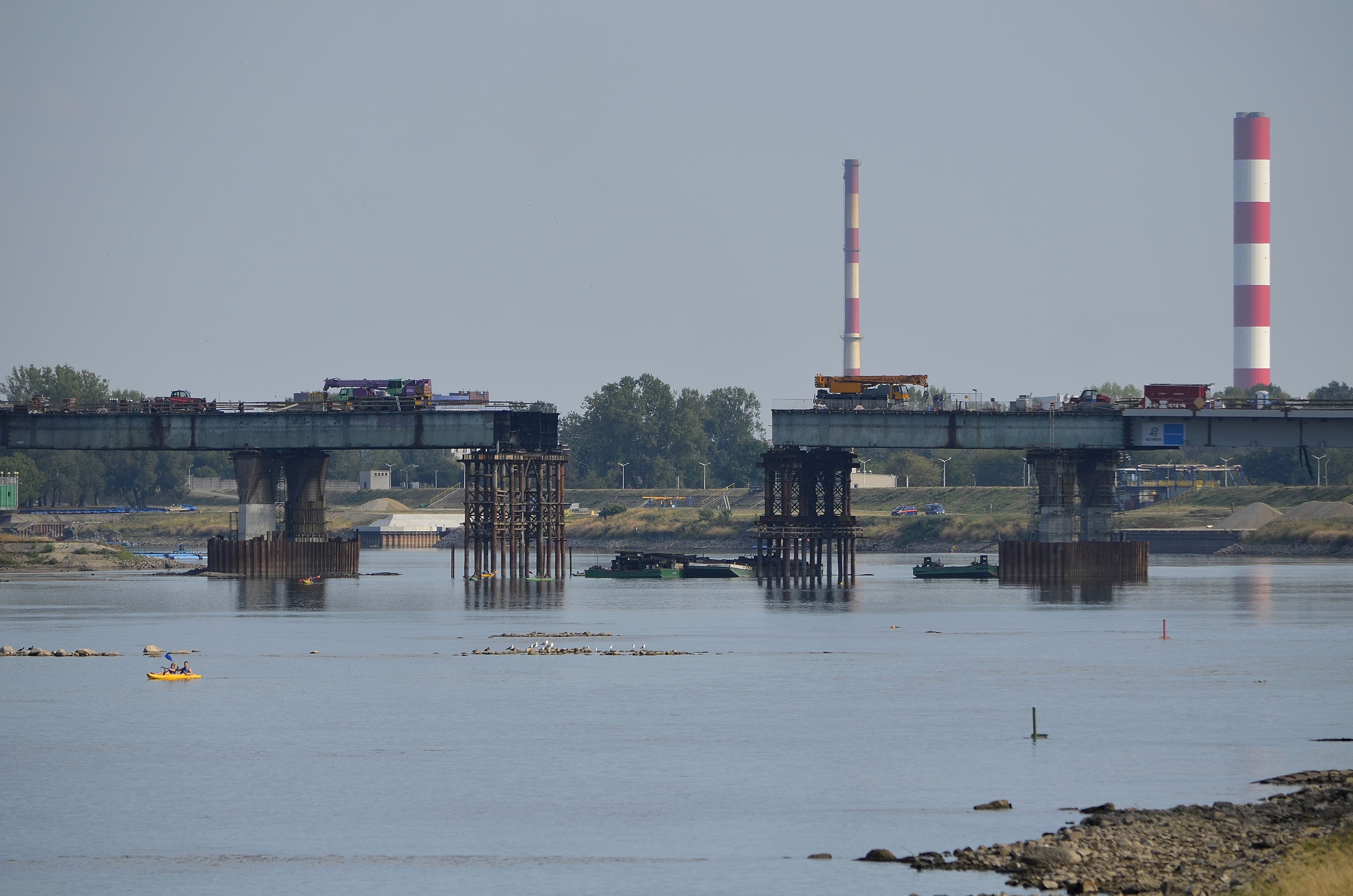 Łazienkowski Bridge in Warsaw